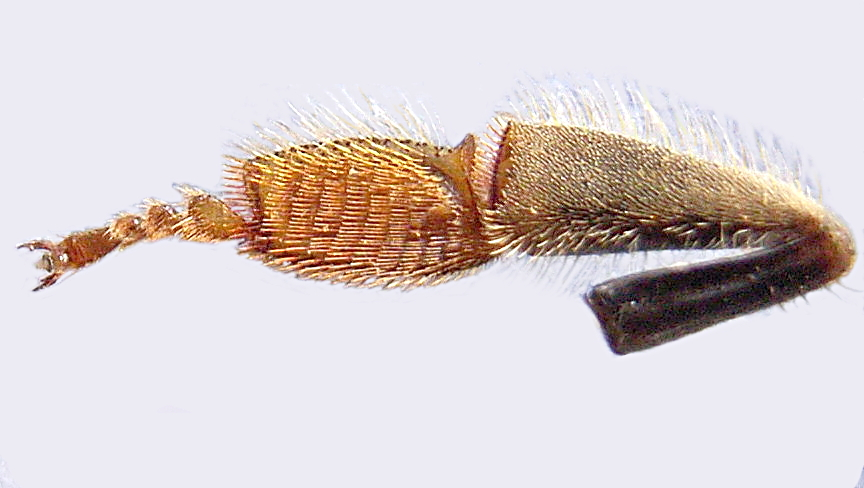 hind leg of Honey bee from inside